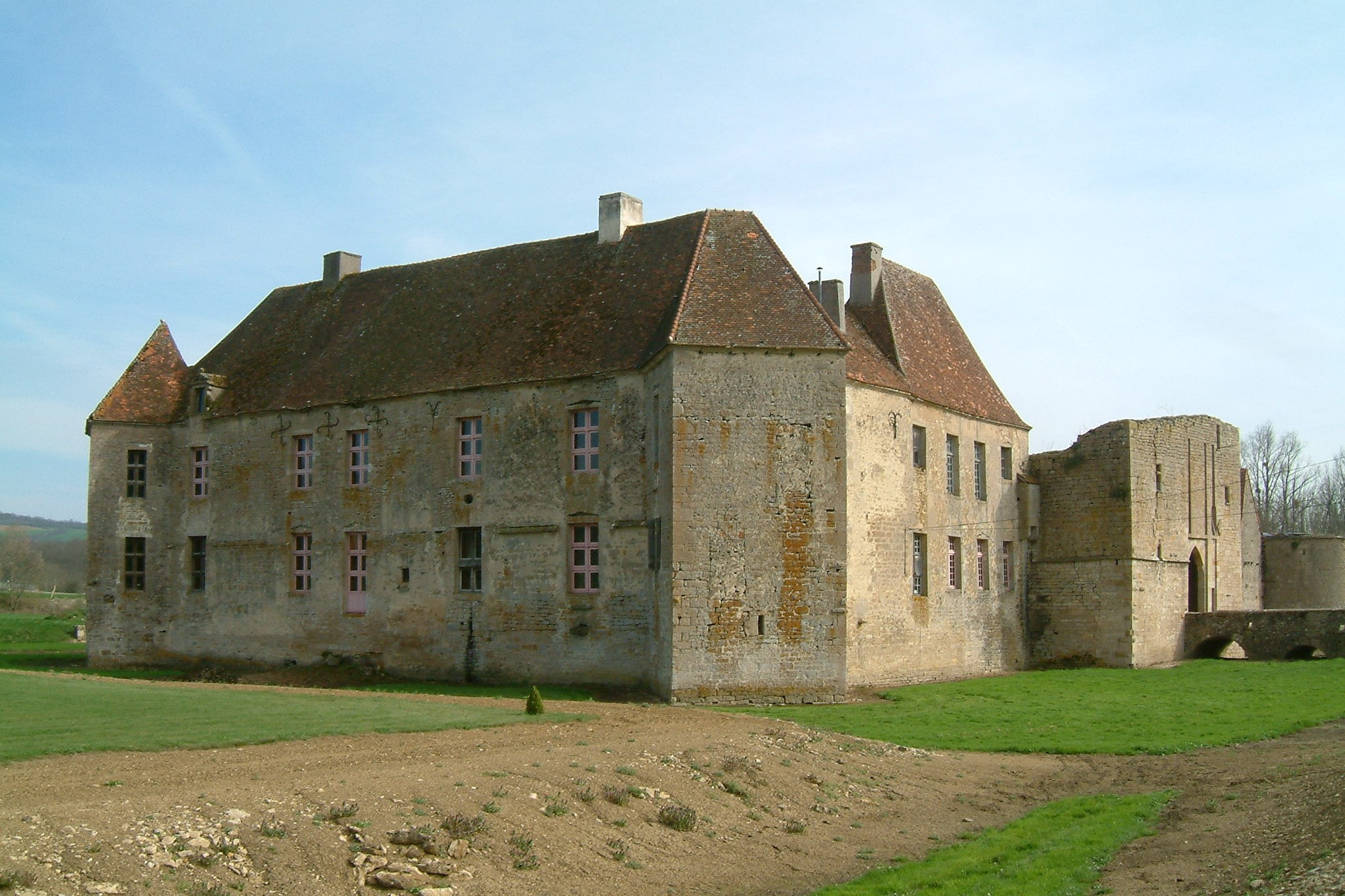 Eguilly castle, Burgundy, FRANCE.